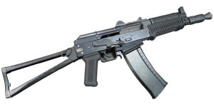 Airsoft AKS-74U assault rifle replica with modernized black furniture, made by WE-Tech